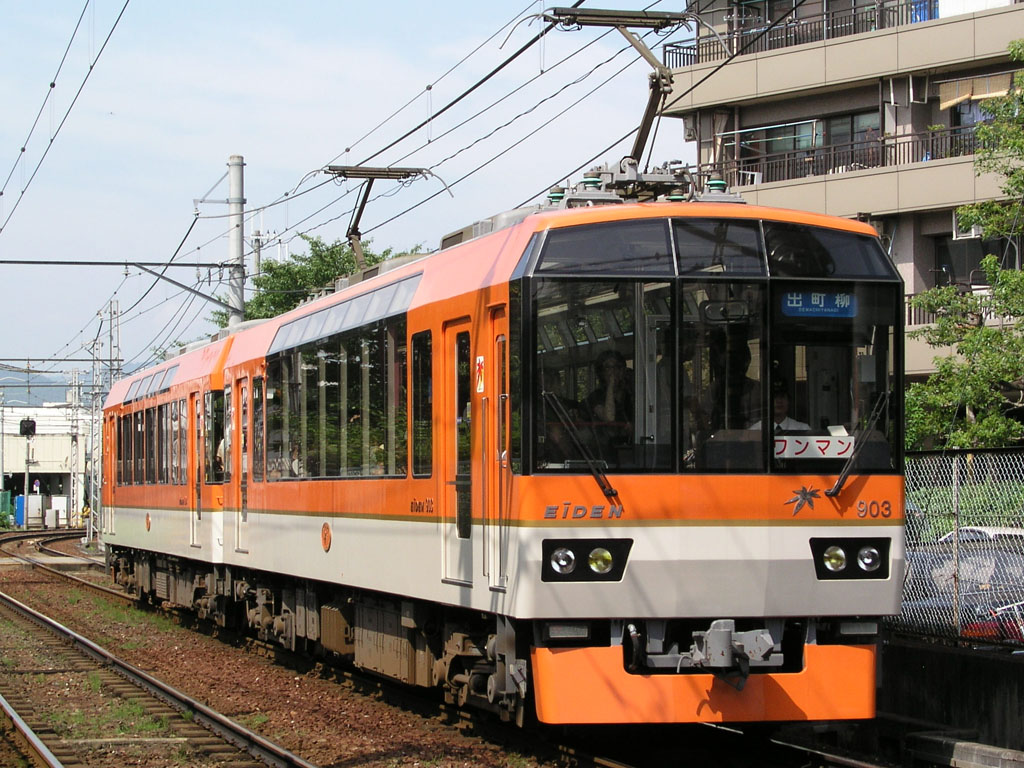 Eizan Electric Railway Type Deo 900 running near Demachiyanagi Station Taken in July 2006